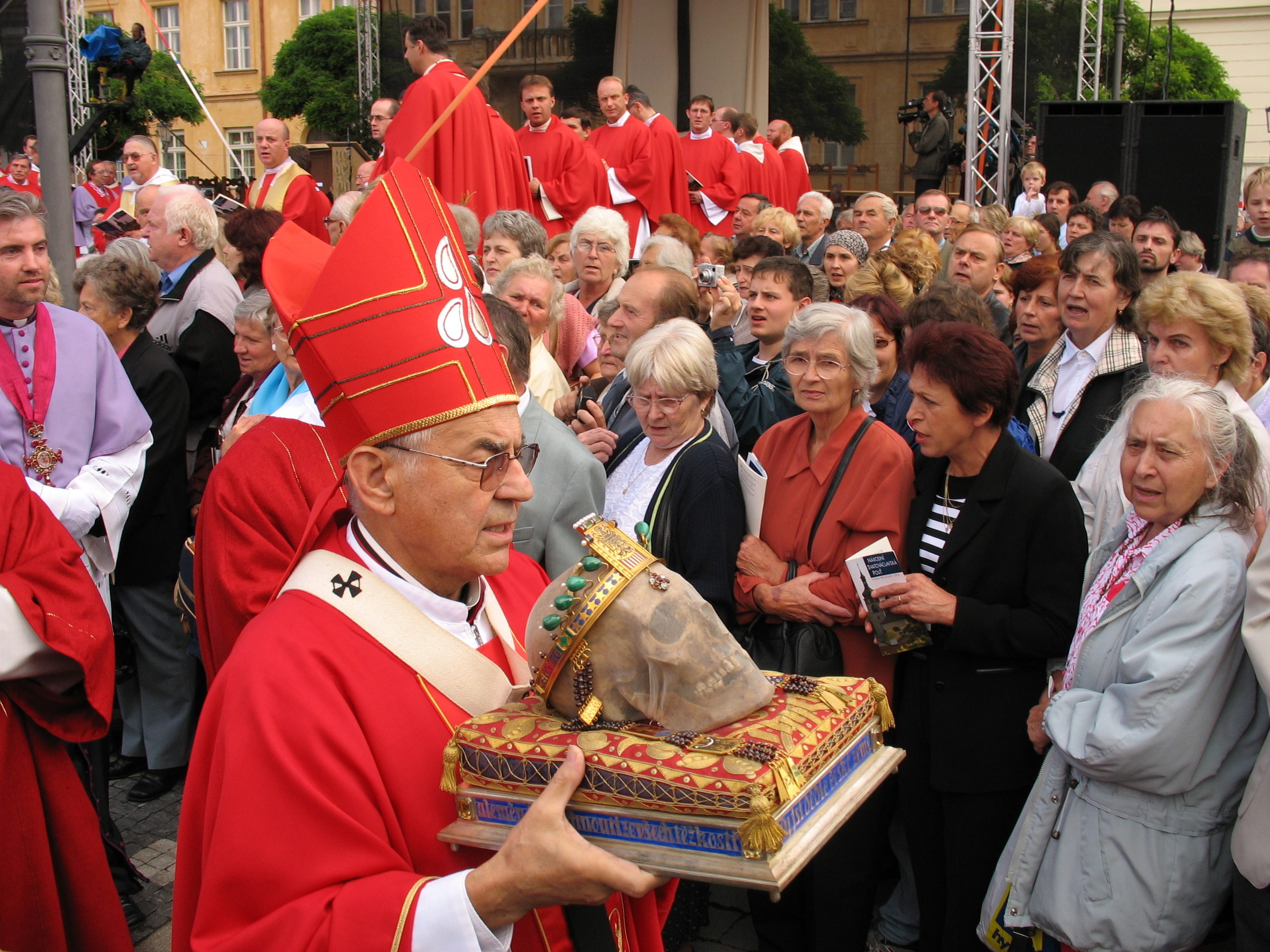 Skull of St Wenceslas, carried by Cardinal Miloslav Vlk